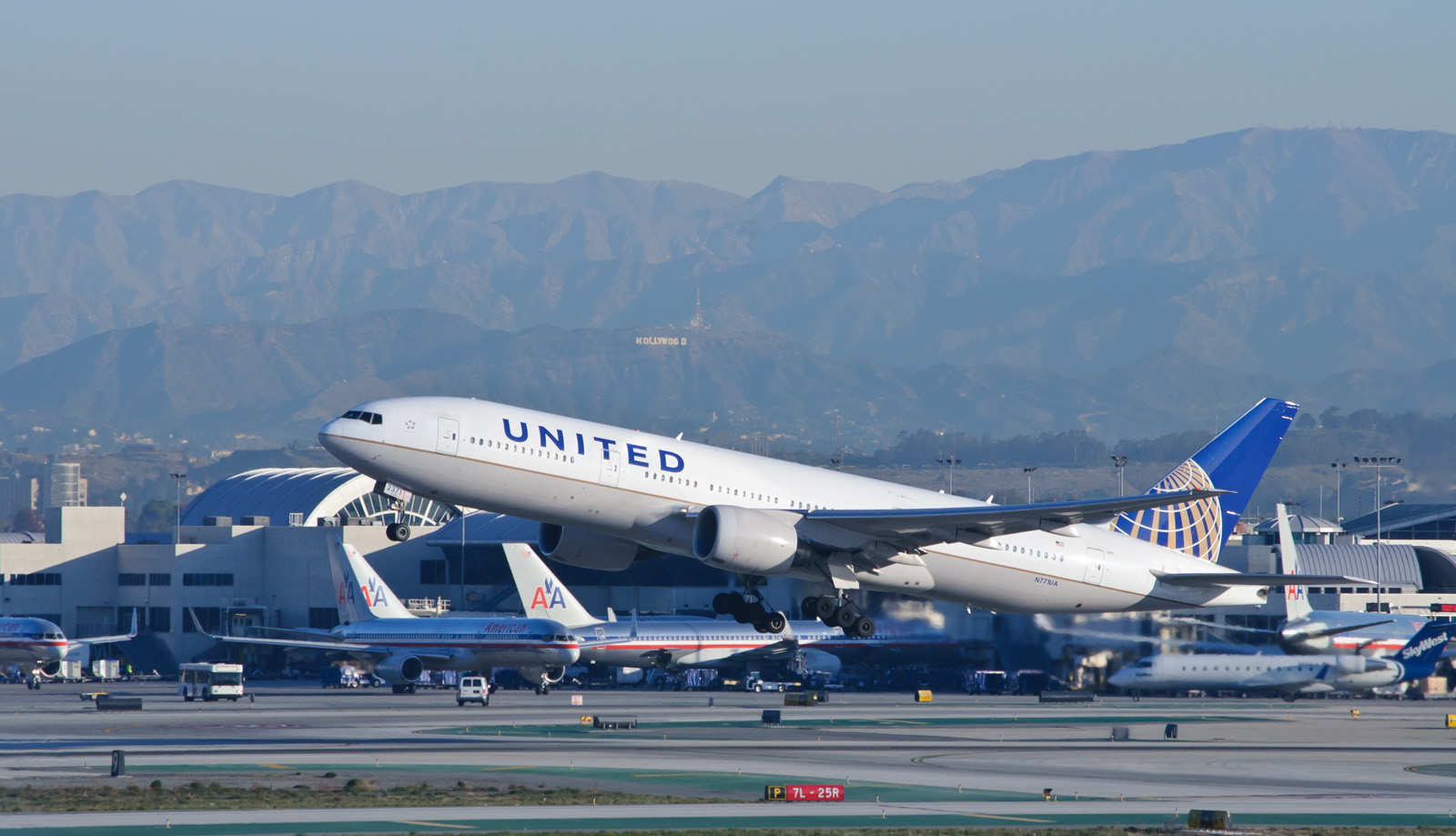 United Airlines offers a number of departures daily from LAX using the 777, but this is the only domestic one. Flight 950 leaves shortly before 8 every morning for Washington Dulles, with continuing service to Brussels, using a short-range 3-class 777. This aircraft, the third Boeing 777 off the assembly line, is very special to me. She first took to the skies on 2 August 1994, under registration N7773, as part of the Boeing 777 certification program, and that was the day I visited the Boeing Everett factory. Later on, on 9 December 1999, she was the exact aircraft that greeted me at Schiphol Airport after a week of nightmare in sexist, homophobic Amsterdam; listening to Melissa Etheridge as the United inflight programming on my way home was such a relief that day. This is my first time sighting this aircraft since leaving Amsterdam - one day short of the 12th anniversary of that moment. The Amsterdam experience is the key reason why United has been my favorite airline ever since. N771UA continued to soldier on in badly decayed Battleship Gray paint until early 2011, when she gained the current Continental Disco Ball livery seen here. "Fly the Lesbian-Friendly Skies" N771UA, Boeing 777-200 (XC)